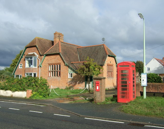 Elizabeth II postbox and phonebox on the B1062, Barsham